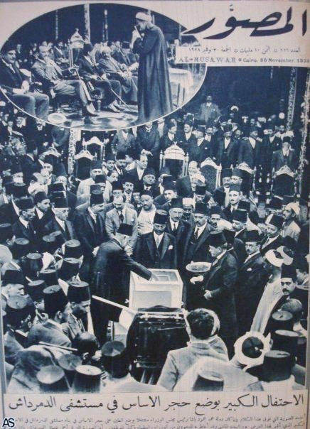 Demerdash Hosp establishment ceremony 1928